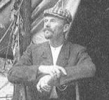 Baron / General Jules Marie Alphonse Jacques de Dixmude in Katanga. He founded Kalemie in Congo in 1892, and was one of the main Belgian generals in World War One